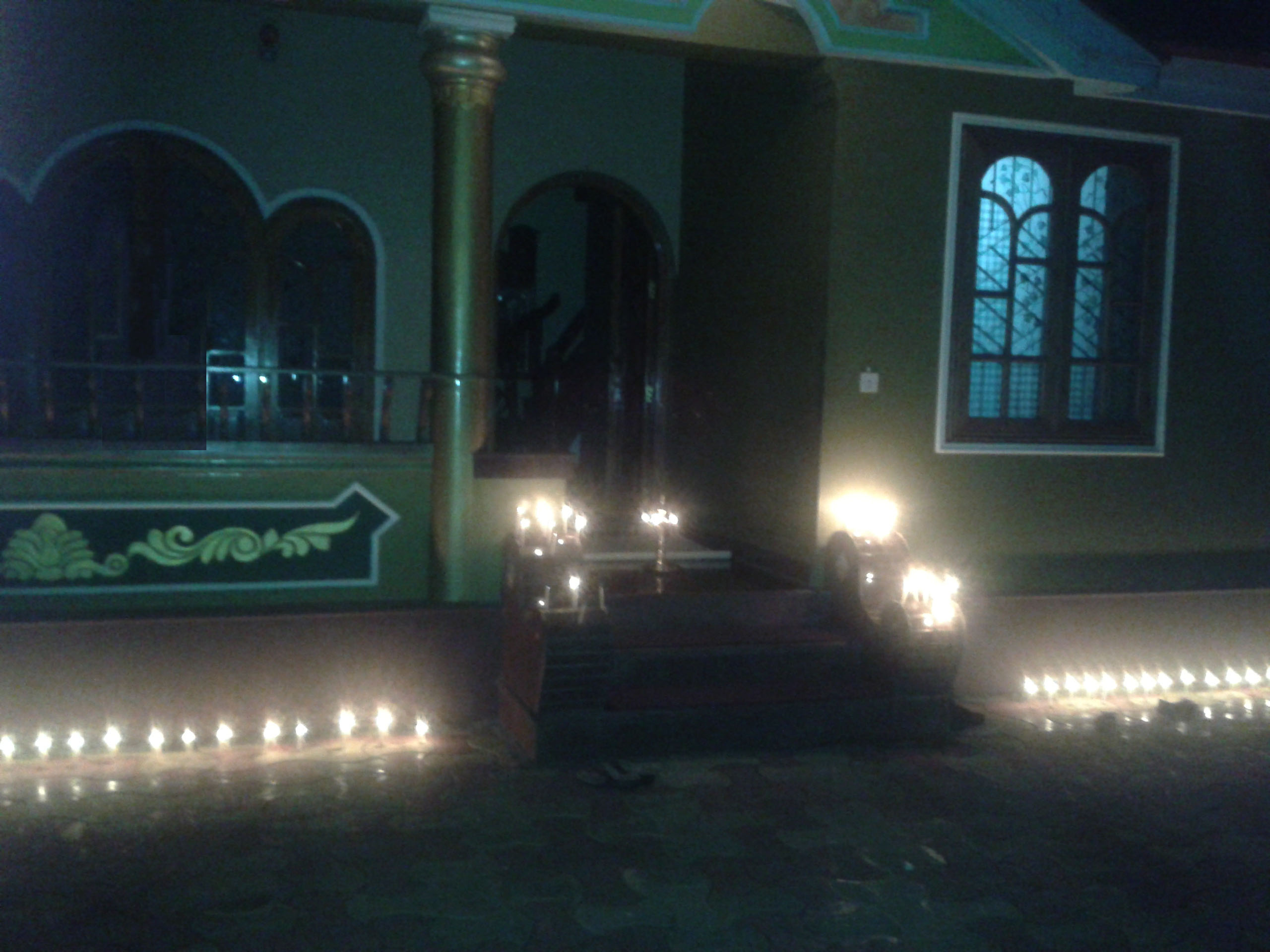 Chatayam celebrations (Birthday of Shri Narayana Guru) by Thiyya community, have a specialty in Kannur and Thalassery by lighting lamps in houses, similar to Deepavali.